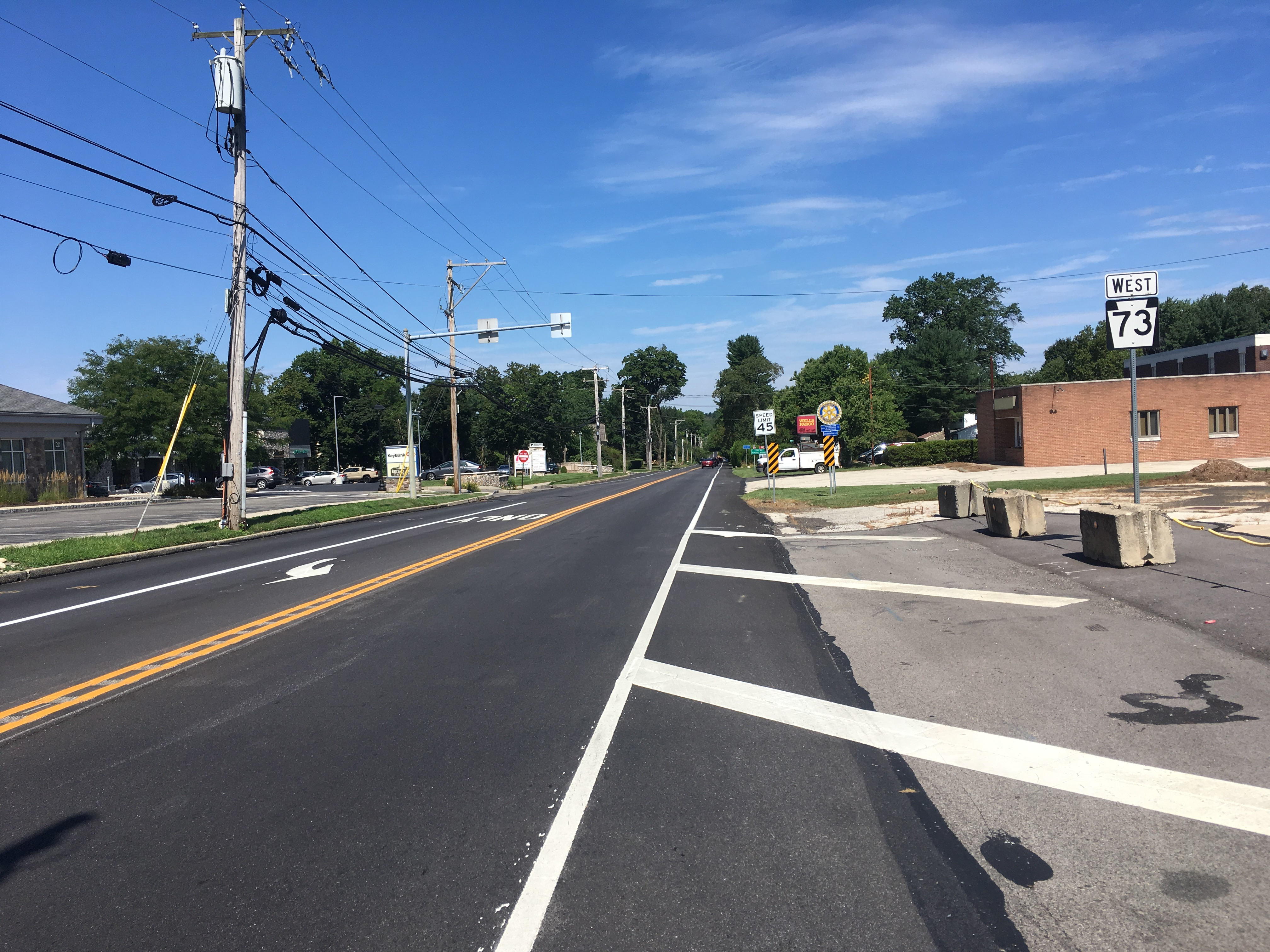 Westbound Pennsylvania Route 73 (Skippack Pike) past the intersection with Butler Pike in Broad Axe, Pennsylvania